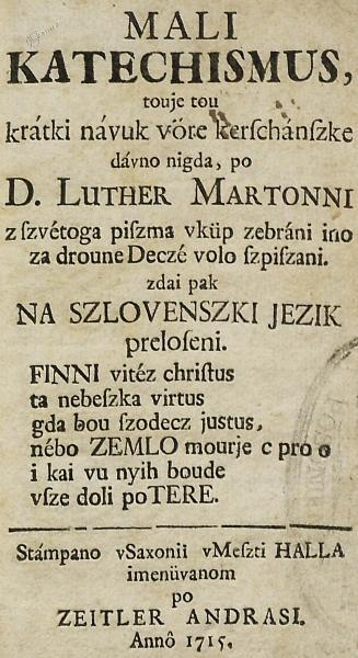 The Mali katechismus (Small Cathecism), prekmurian lutheran cathecism from the Cathecism of Martin Luter. By Ferenc Temlin in 1715. This is the first printed book in prekmurian language (prekmurščina)